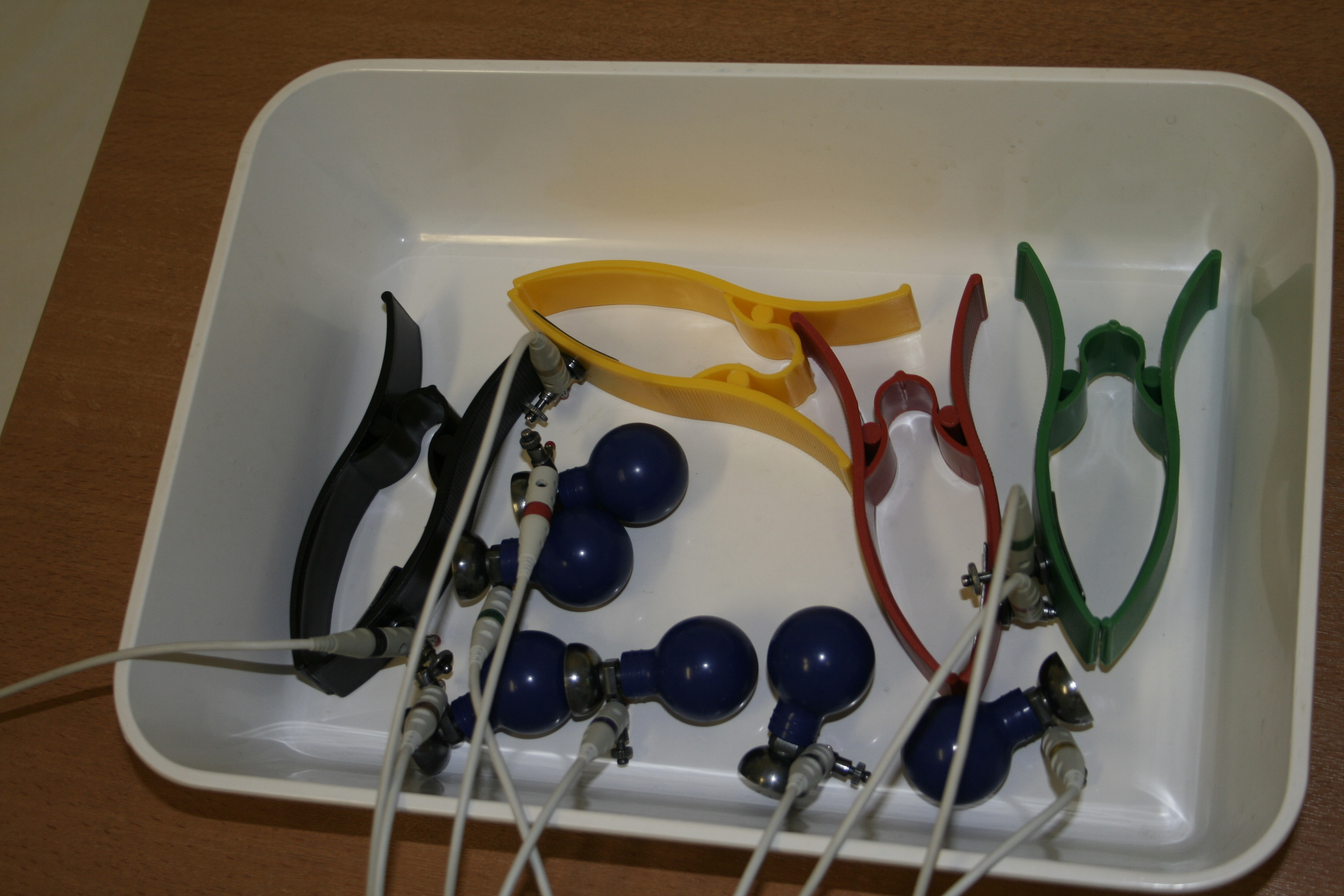 ECG device BTL-08 S ECG – electrodes